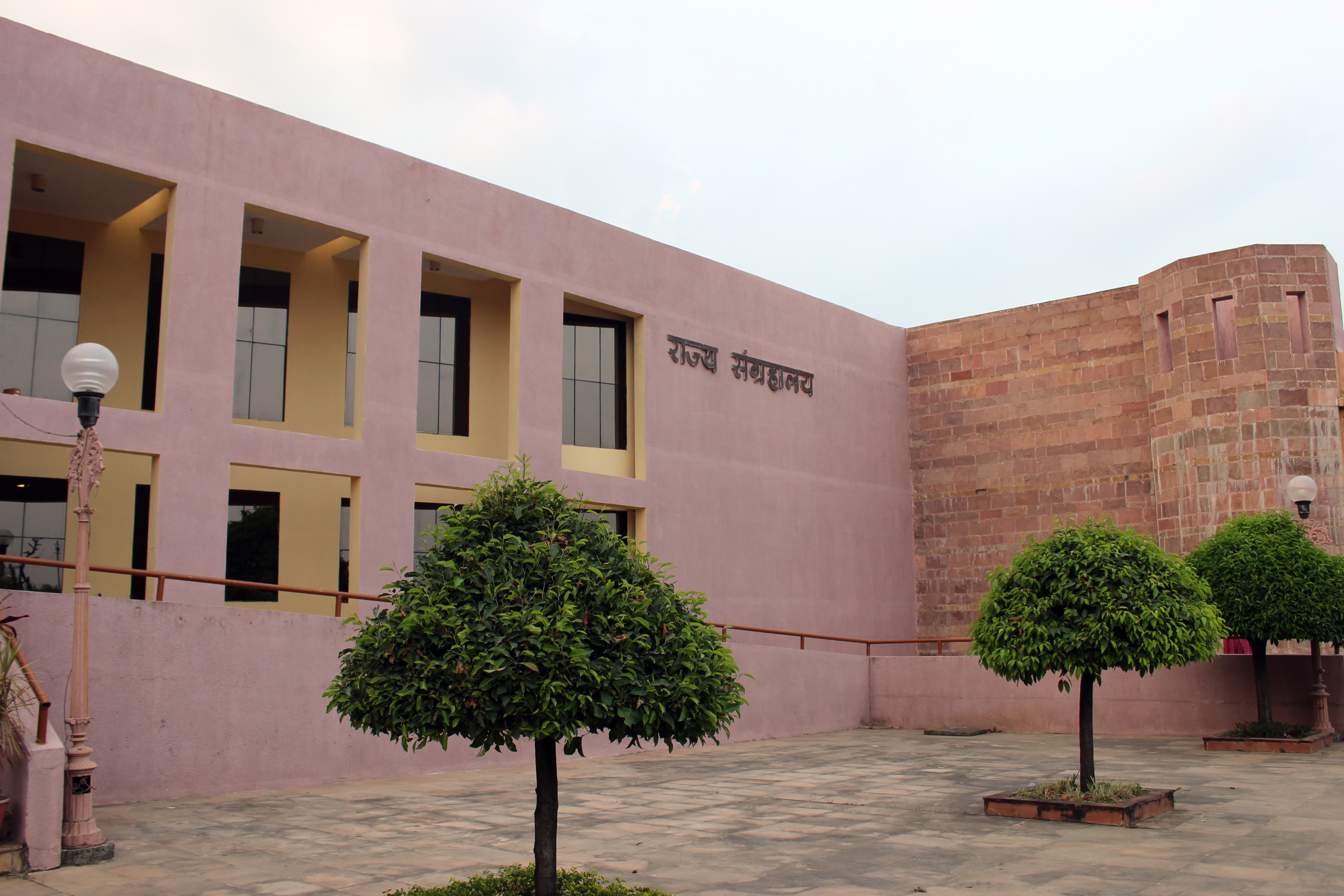 Outside View of State Museum Bhopal